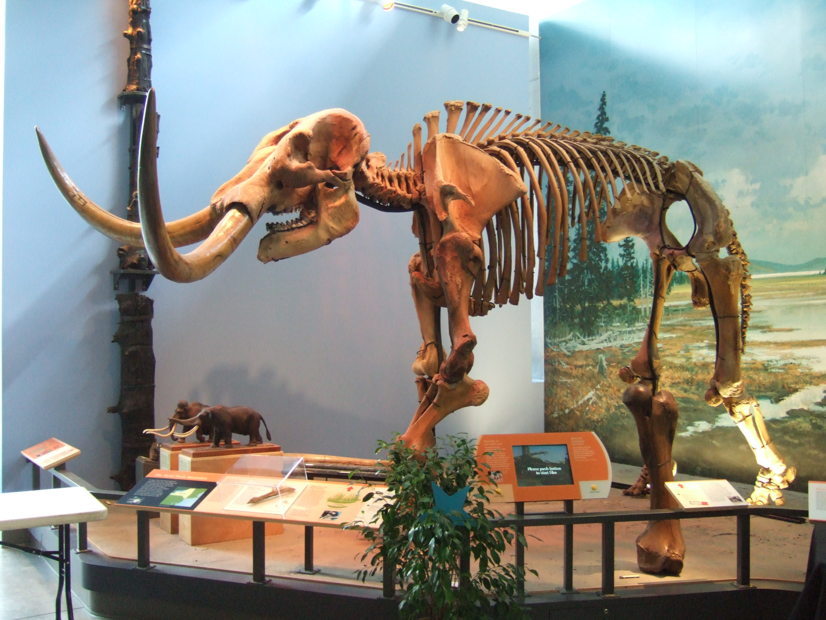 Mastodon skeleton, Museum of the Earth